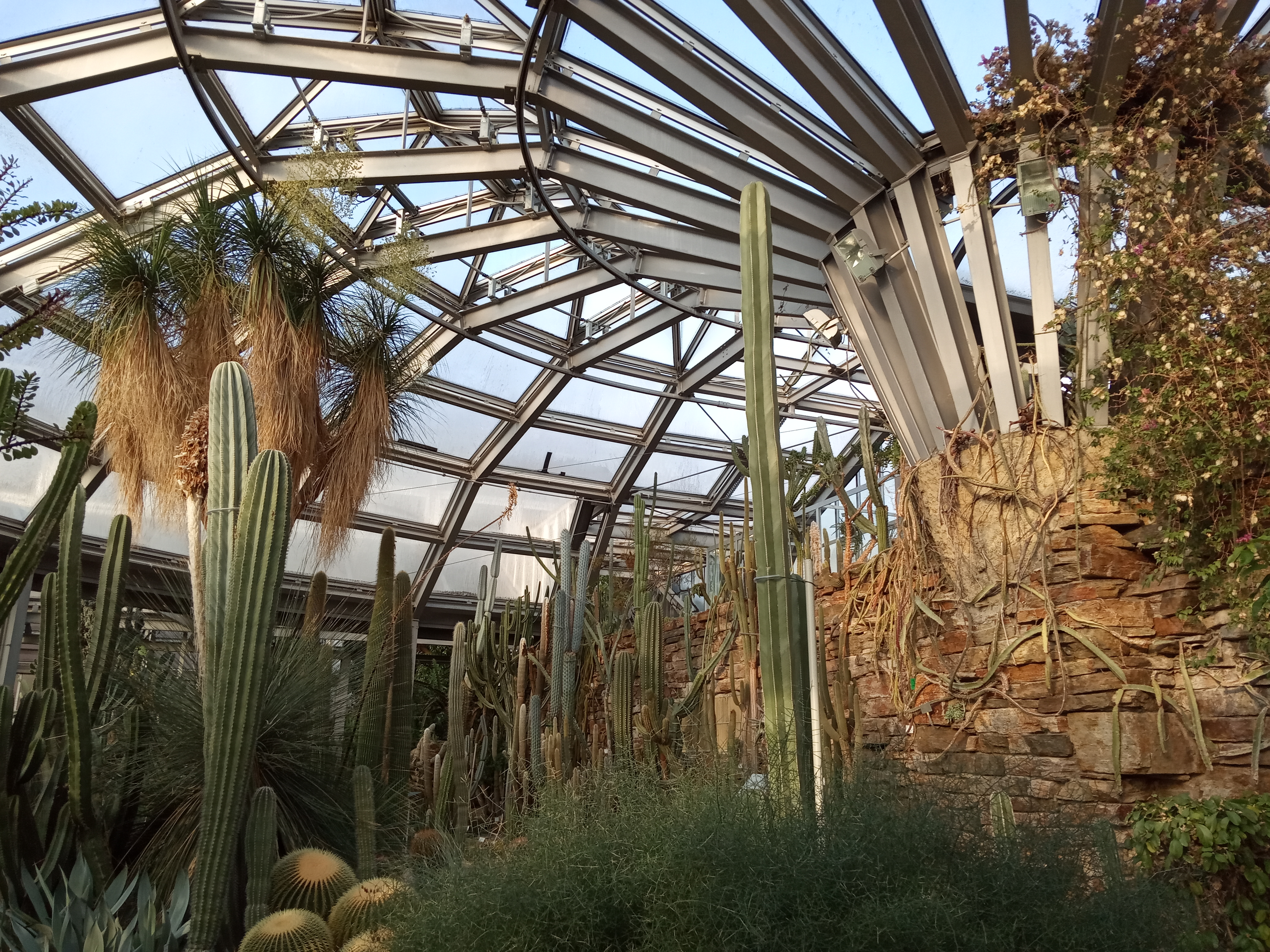 Botanical garden in Berlin.